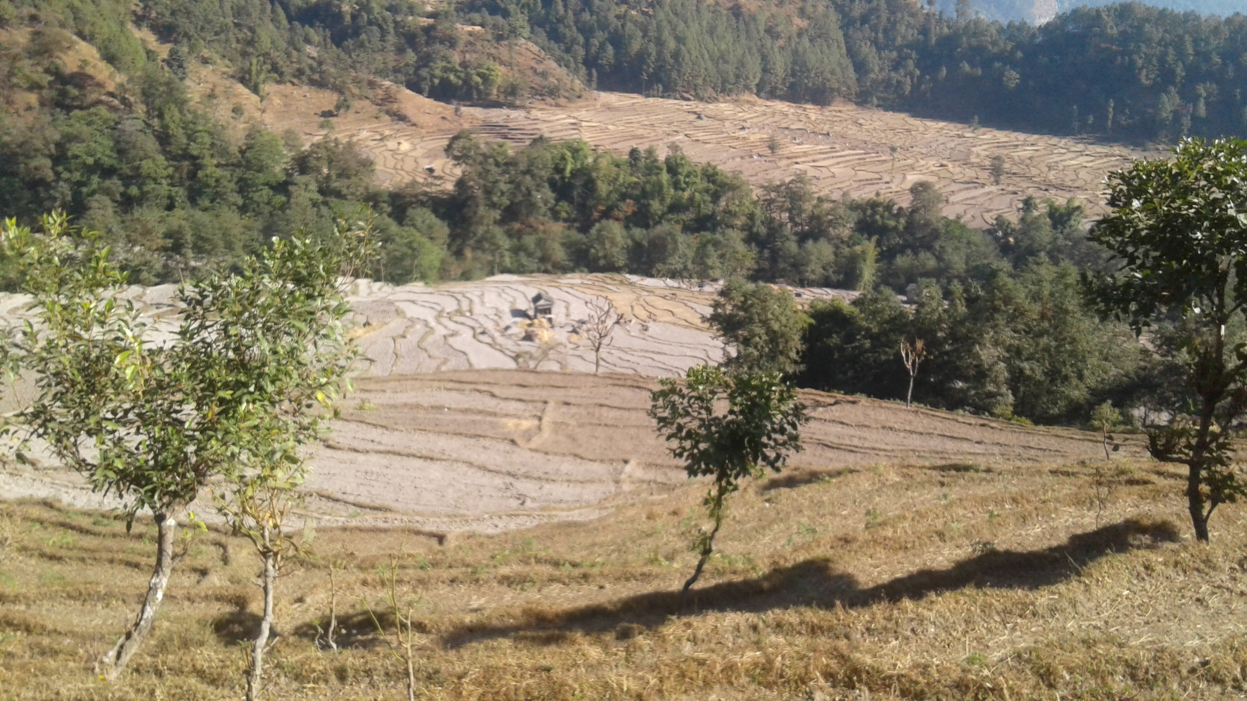 Solukhumbu District, Salyan VDC, Salyan Fedi paddy field and a portion of Dyamde Fedi paddy field pictured on 15 December, 2016 after the completion of paddy harvesting. Looks dry and barren.